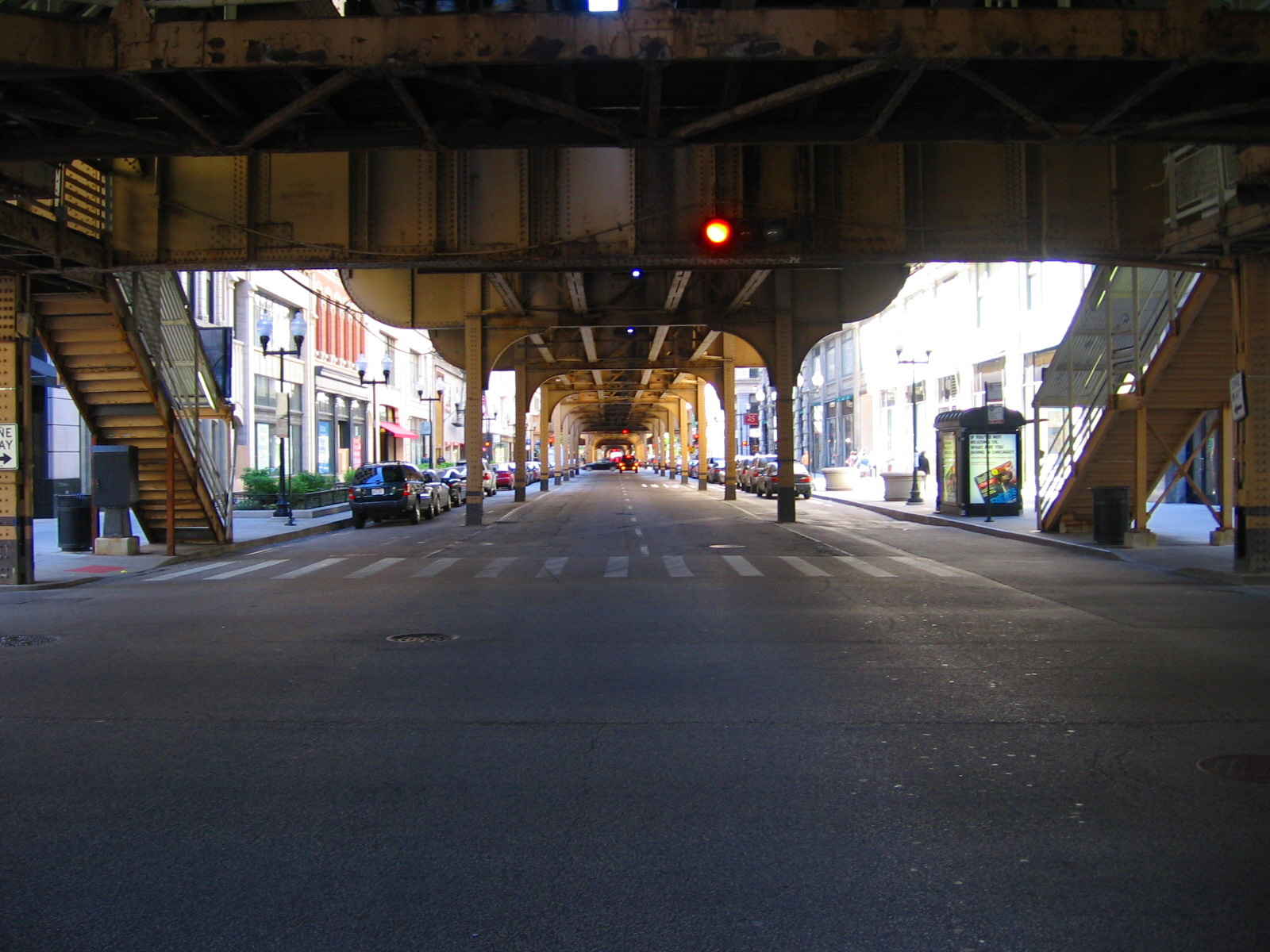 Under the elevated tracks in Downtown Chicago.